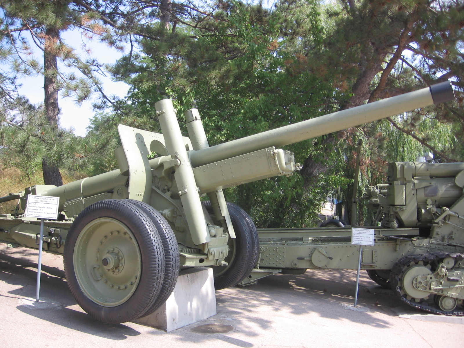 Soviet 122 mm gun M1931/37 (A-19), manufactured in 1944, is displayed at the Museum of Heroic Defense and Liberation of Sevastopol on Sapun Mountain in Sevastopol.